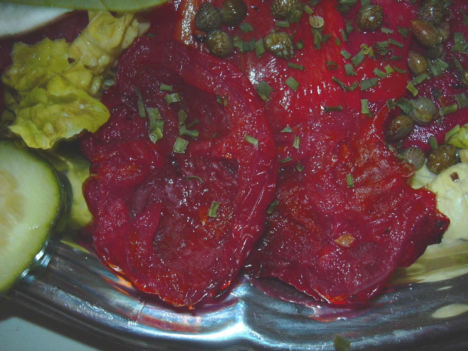 tomate sechee